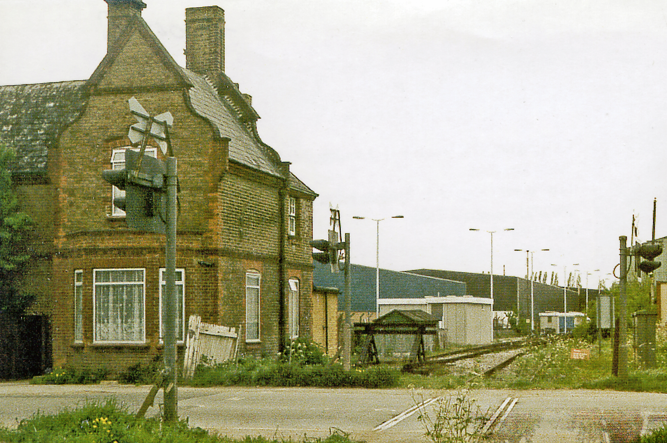 Site of Colnbrook station, 1986, View northward across the B3378 (original Bath Road), towards West Drayton: ex-GWR West Drayton - Staines branch. The station was closed when the passenger service on the branch ceased from 29/3/65. Goods traffic ceased from 3/1/66, but as the photograph shows the line remains open to this point from West Drayton, for traffic to a fuel depot for Heathrow Airport and to an aggregates depot.